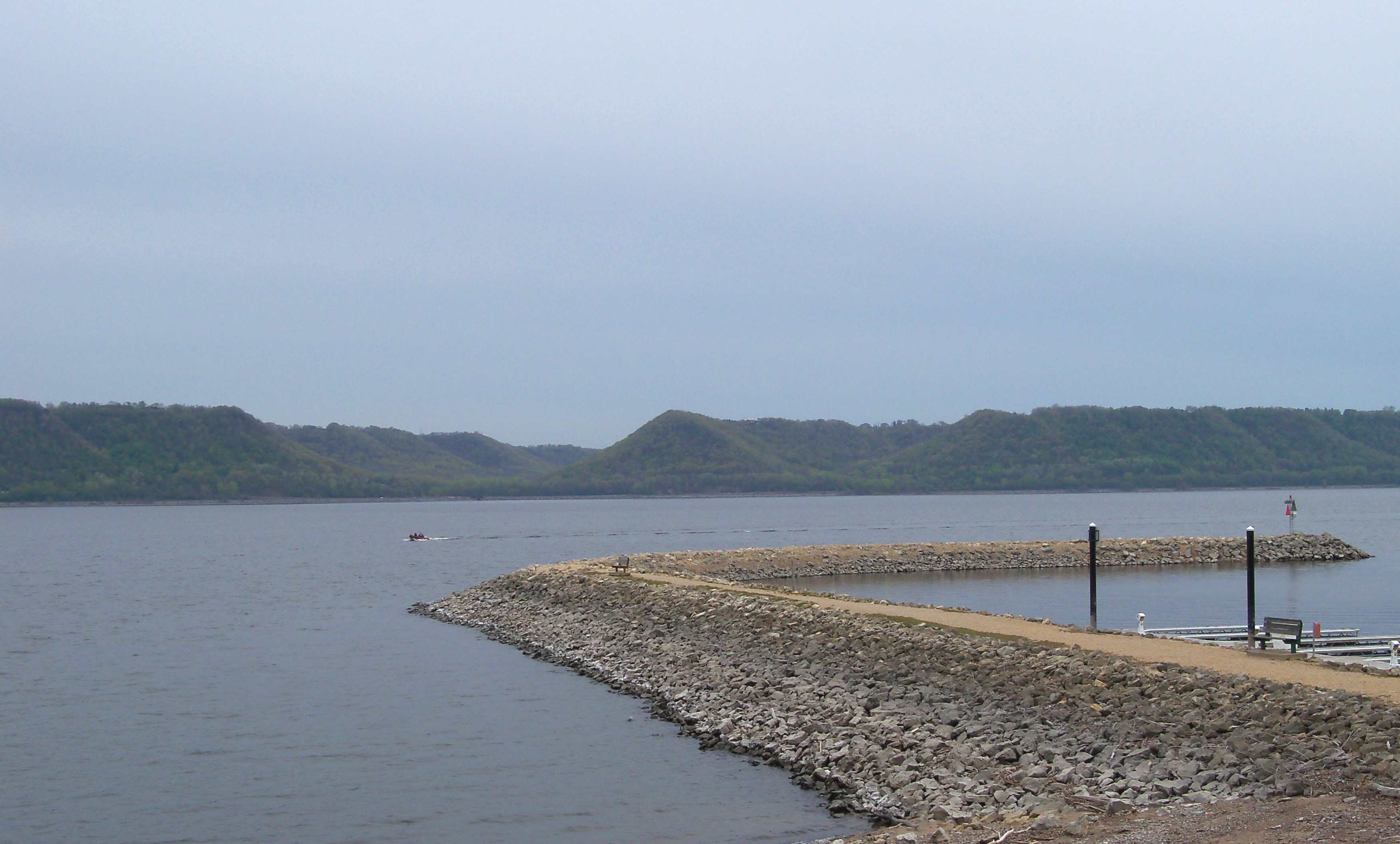 View of Lake Pepin from Pepin, Wisconsin, USA.